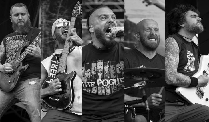 Members of Killswitch Engage performing 2014. From left to right: Joel Stroetzel, Adam Dutkiewicz, Jesse Leach, Justin Foley, Mike D'Antonio